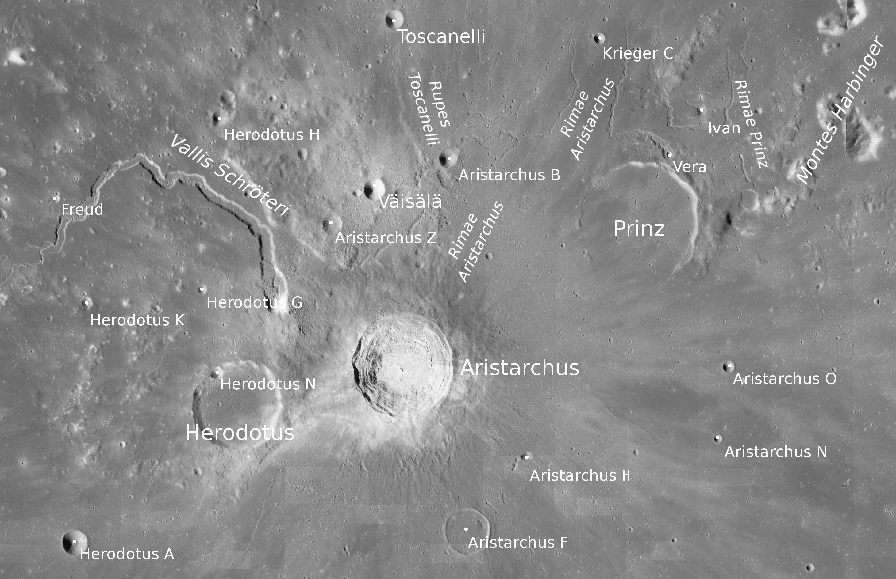 Craters Herodotus, Aristarchus and Prinz (detail of LRO - WAC global moon mosaic)